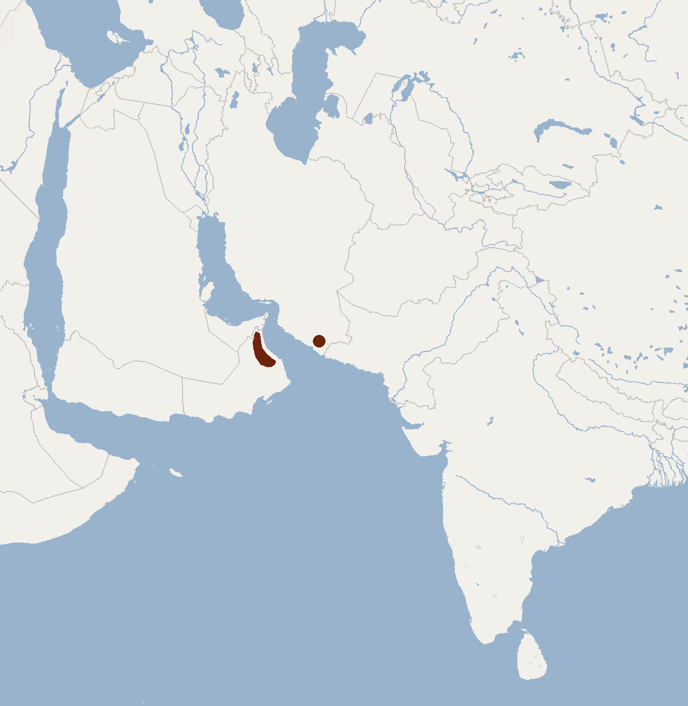 According to & Benda & Reiter, 2008